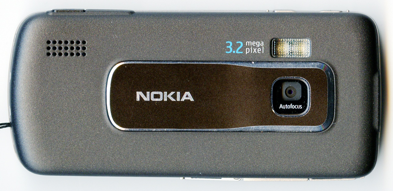 Nokia 6210 Navigator mobile phone back